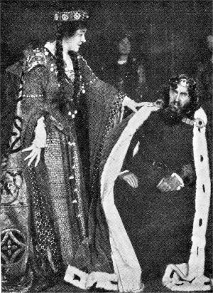 W. S. Gilbert and Marion Terry in a benefit performance of Rosencrantz and Guildenstern, 1908